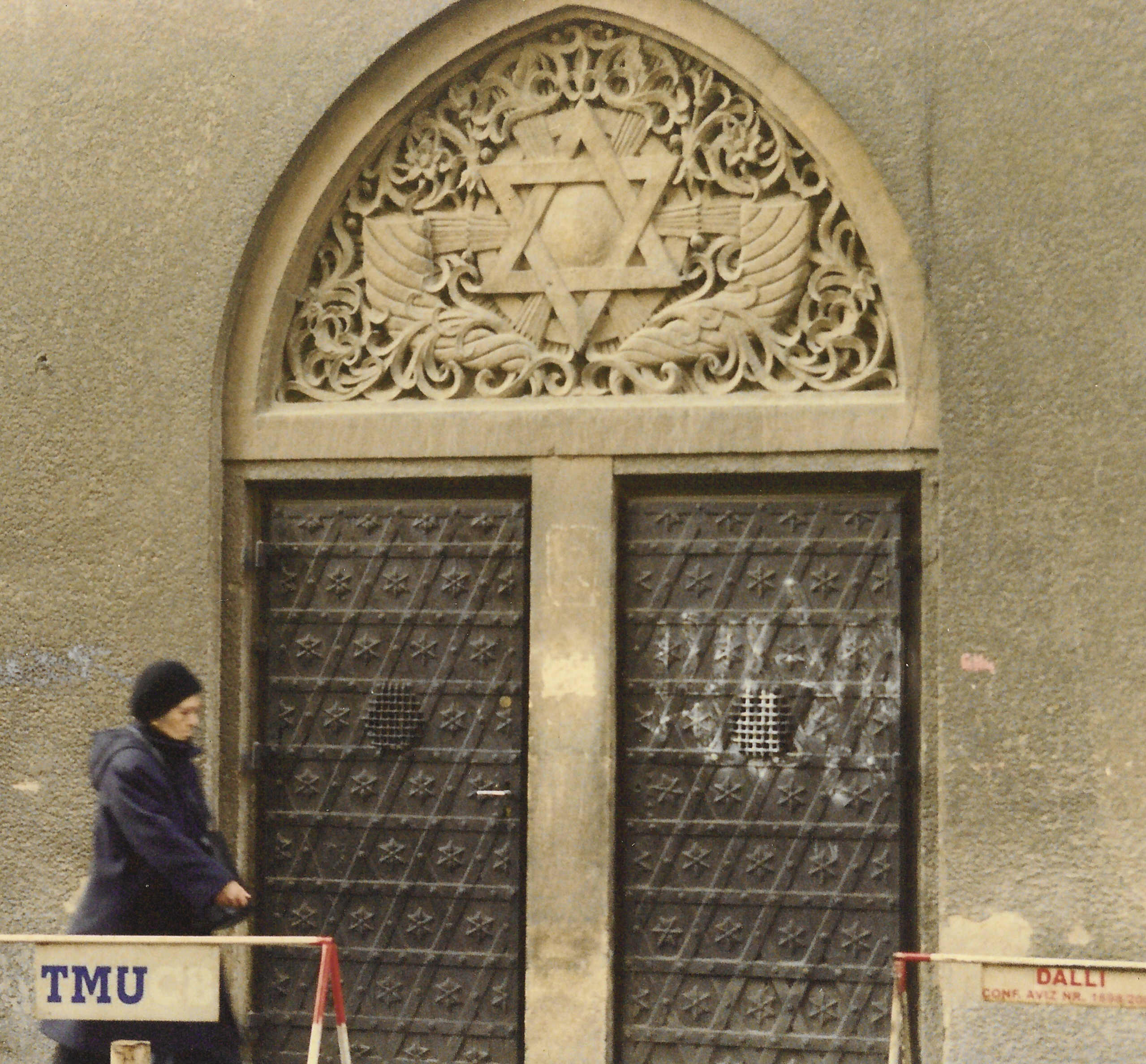 Main door of "Ieşua Tova" ("Yeshua Tova") Synagogue near Piaţa Amzei, Bucharest, Romania, the oldest surviving synagogue in Bucharest according to Dpotop. Further information, copied from Wikipedia talk:Romanian Wikipedians' notice board: According to this source, the Iesua Tova Synagogue was built in 1827, and is located on Take Ionescu Street. (The 4 other synagogues listed there are all newer.) According to this source, the actual spelling is "Ieşua Tova", which makes more sense to me; an alternate name is "Sinagoga Podul Mogoşoaiei". Also, the address is listed as 9, Take Ionescu Street. Turgidson 02:47, 25 June 2007 (UTC) Here is more on the history of the "Yeshua Tova" Synagogue, together with a pic confirming 100% Dpotop conjecture! Turgidson 02:58, 25 June 2007 (UTC) Further note: Podul Mogoşoaiei is the old name of Calea Victoriei. - Jmabel | talk 05:48, 25 June 2007 (UTC)